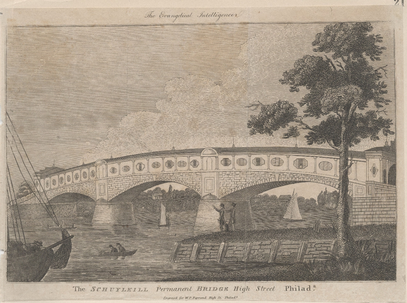 Schuylkill Permanent Bridge at High Street, the first covered bridge in America, completed in 1805, Library Company of Philadelphia. Published in John F. Watson, Annals of Philadelphia (1830). Note: Built to replace a pontoon bridge at High Street (now Market) this new bridge was covered to protect it from the elements. Designed by Timothy Palmer; woodwork and ornamentation by Owen Biddle. Widened in 1850 to accommodate a railroad connection with the Columbia and Pennsylvania Railroads; destroyed by fire in 1875.